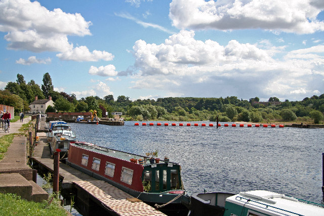 Entrance to Beeston Lock. Just after Beeston Marina, from where this photo was taken, the River Trent flows over Beeston Weir, forcing boats through Beeston Lock and along Beeston Canal if they wish to continue towards Nottingham. The view shows the float barrier which stops boats going over the weir in the centre of the picture. The entrance to Beeston Lock is towards the left - the lock itself is just in front of the white-washed lock-keeper's cottage. The canal towpath is very popular with cyclists, walkers and joggers, and provides a welcome break at lunchtimes for workers on nearby industrial sites.